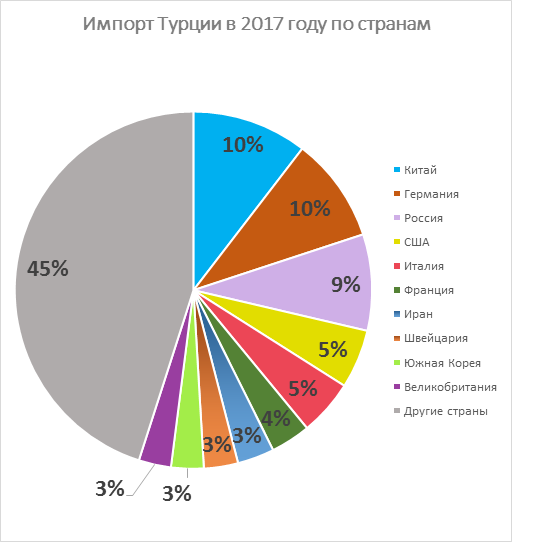 Turkish imports by country